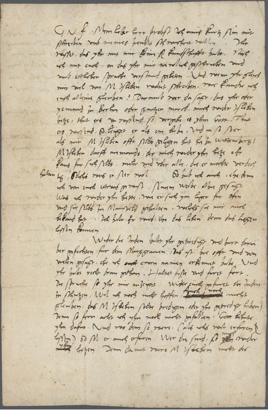 Autograph letter from Martin Luther to Georg Buchholzer, provost of St Nikolai in Berlin. Written in Wittenberg, ca 1 September 1543. First page. In the letter, Luther calls Agricola "a liar" and encourages Buchholzer to keep on preaching against the Jews, whom Luther calls "devils incarnate who curse our Lord, who abuse His mother as a whore and Him as Hebel Vorik and a bastard".